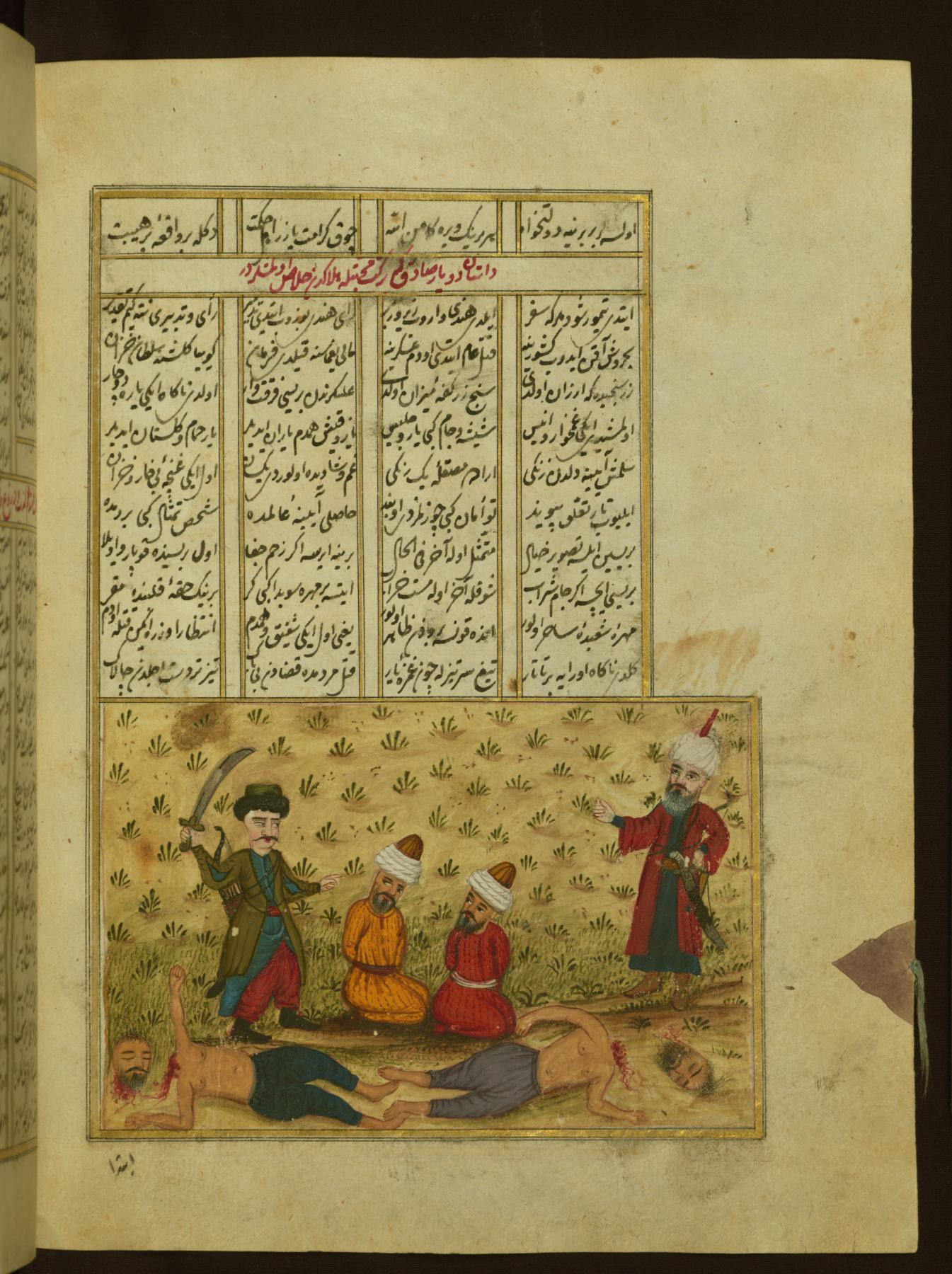 Khamsa by Atai (Walters MS 666)